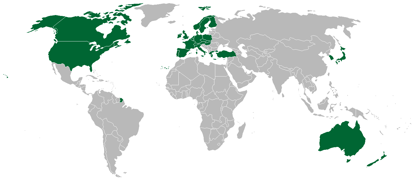 Map with members International Energy Agency.